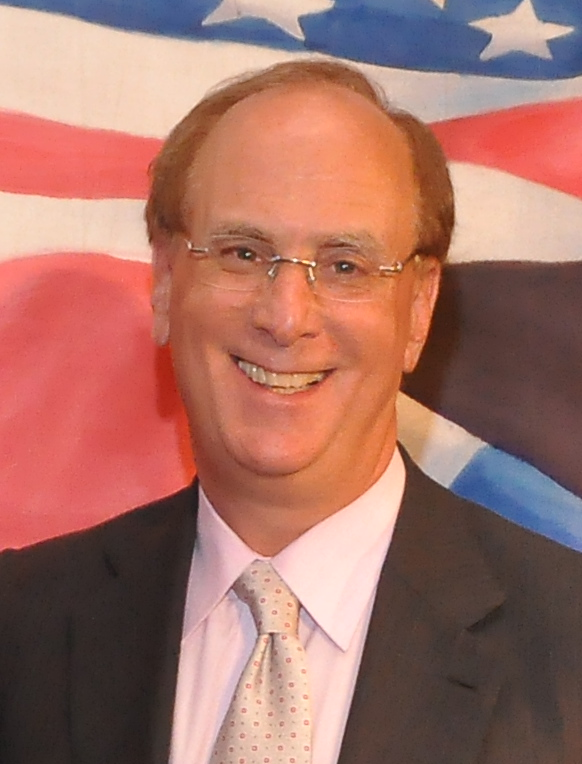 Larry Fink at Wilson Awards in 2010